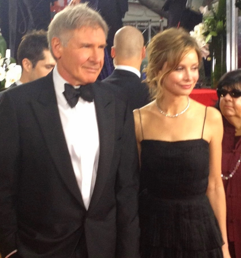 Harrison Ford & Calista Flockhart at the 69th Annual Golden Globes Awards 2012.